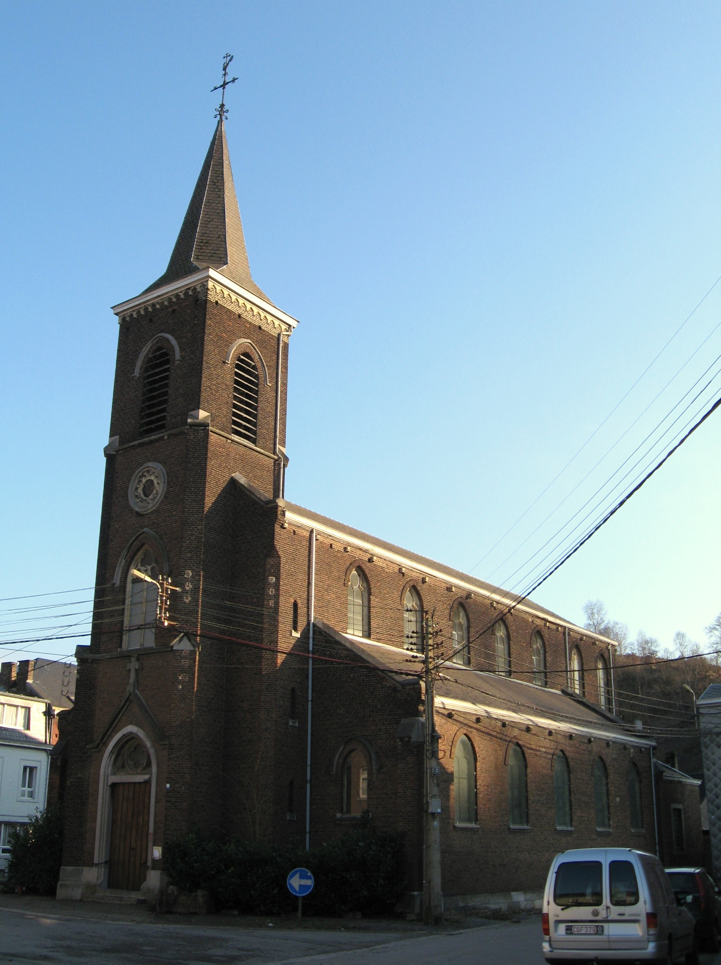 Church of Saint-Lawrence in Prayon, Forêt, Trooz, Liège, Belgium